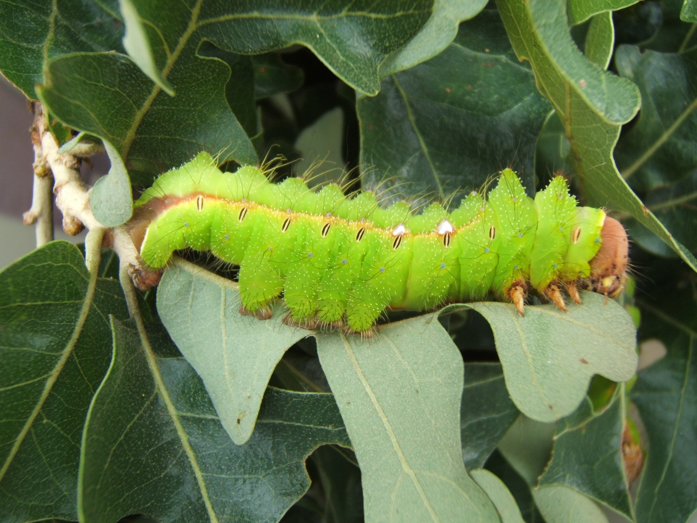 Antheraea pernyi 6th instar larvae raised on Quercus.